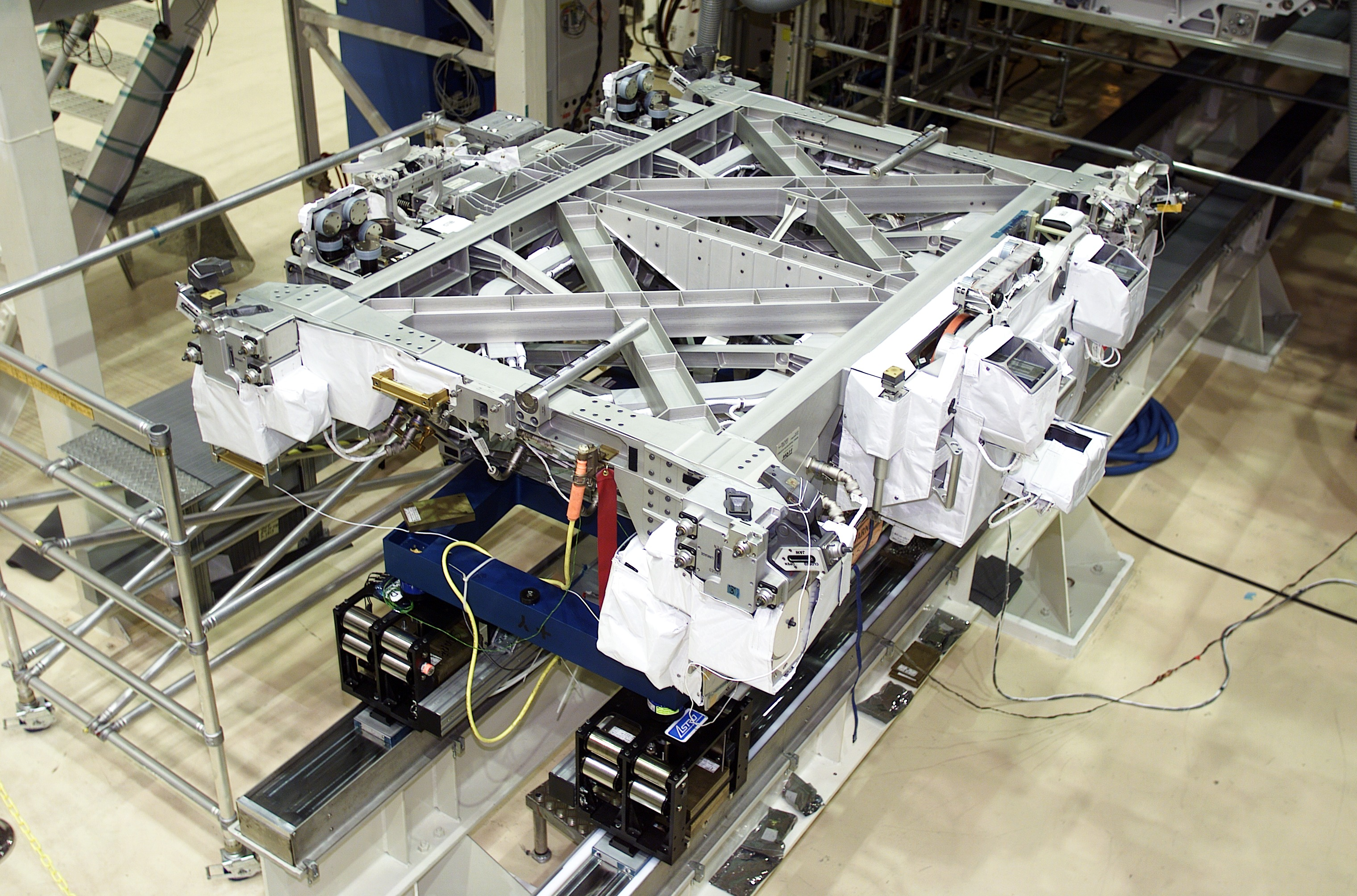 JSC2001-E-18949 (December 2001) --- The Space Shuttle Atlantis will launch this railcar, called the Mobile Transporter, and an initial 43-foot section of track as it delivers the first segment of the International Space Station's exterior truss. Designated "S0 (S-zero)," the first section of truss will be carried aloft by Atlantis on shuttle mission STS-110 in April of 2002.